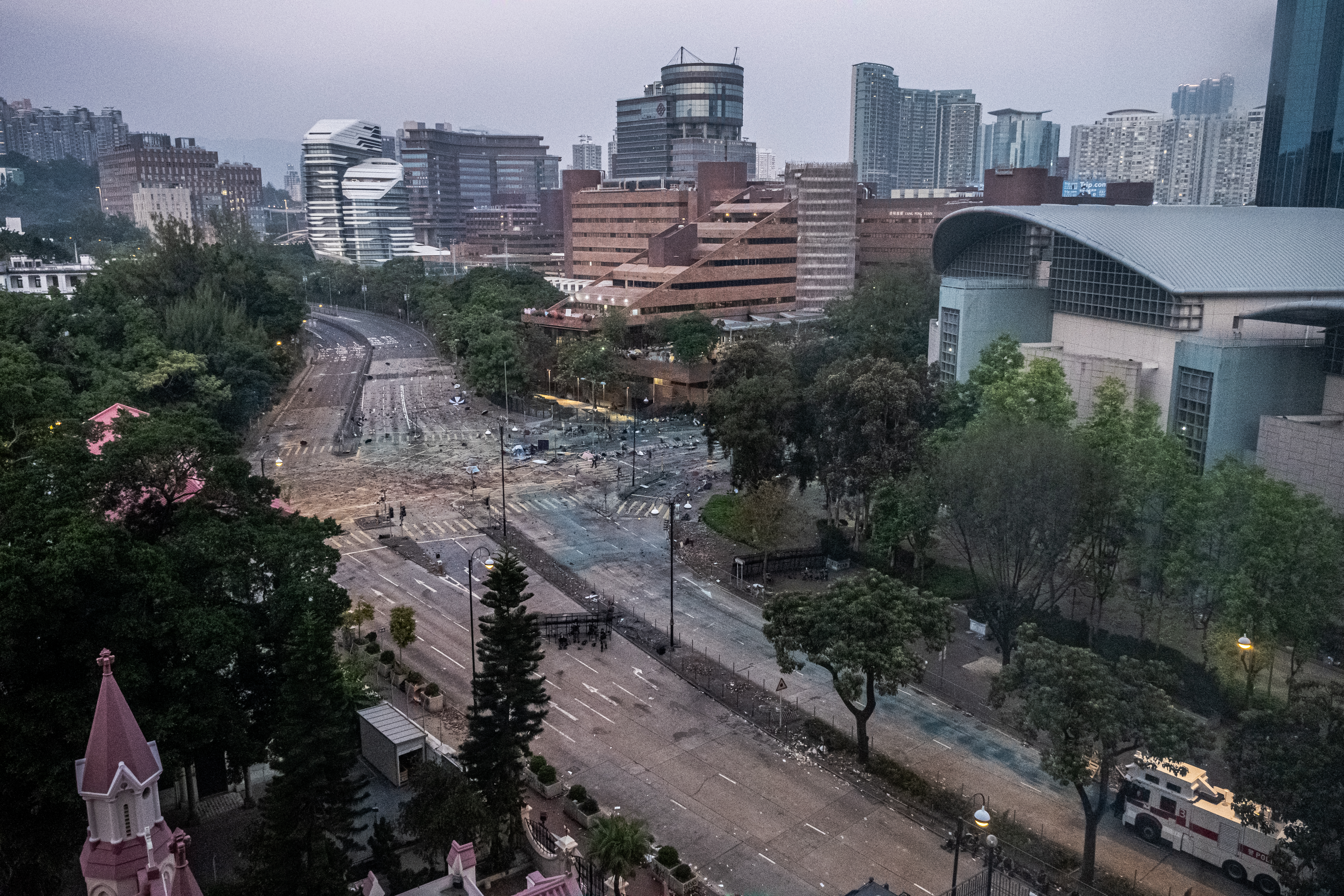 HKPU and Chatham Road South after the conflict